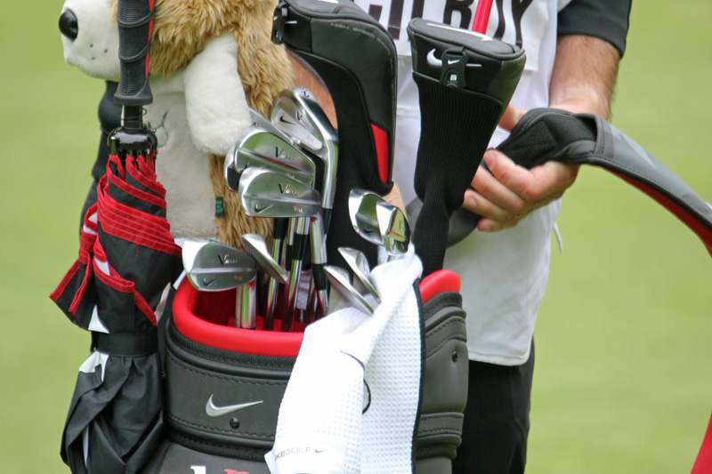 Caddie J. P. Fitzgerald tends to Rory McIlroy's clubs during a practice day for the 2013 BMW PGA Championship at Wentworth Club.